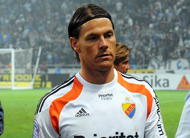 After AIK-Djurgården.